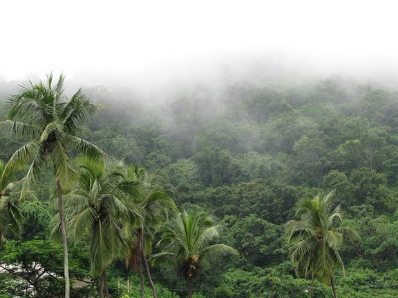 Simhachalam Hills on a rainy day, Visakhapatnam